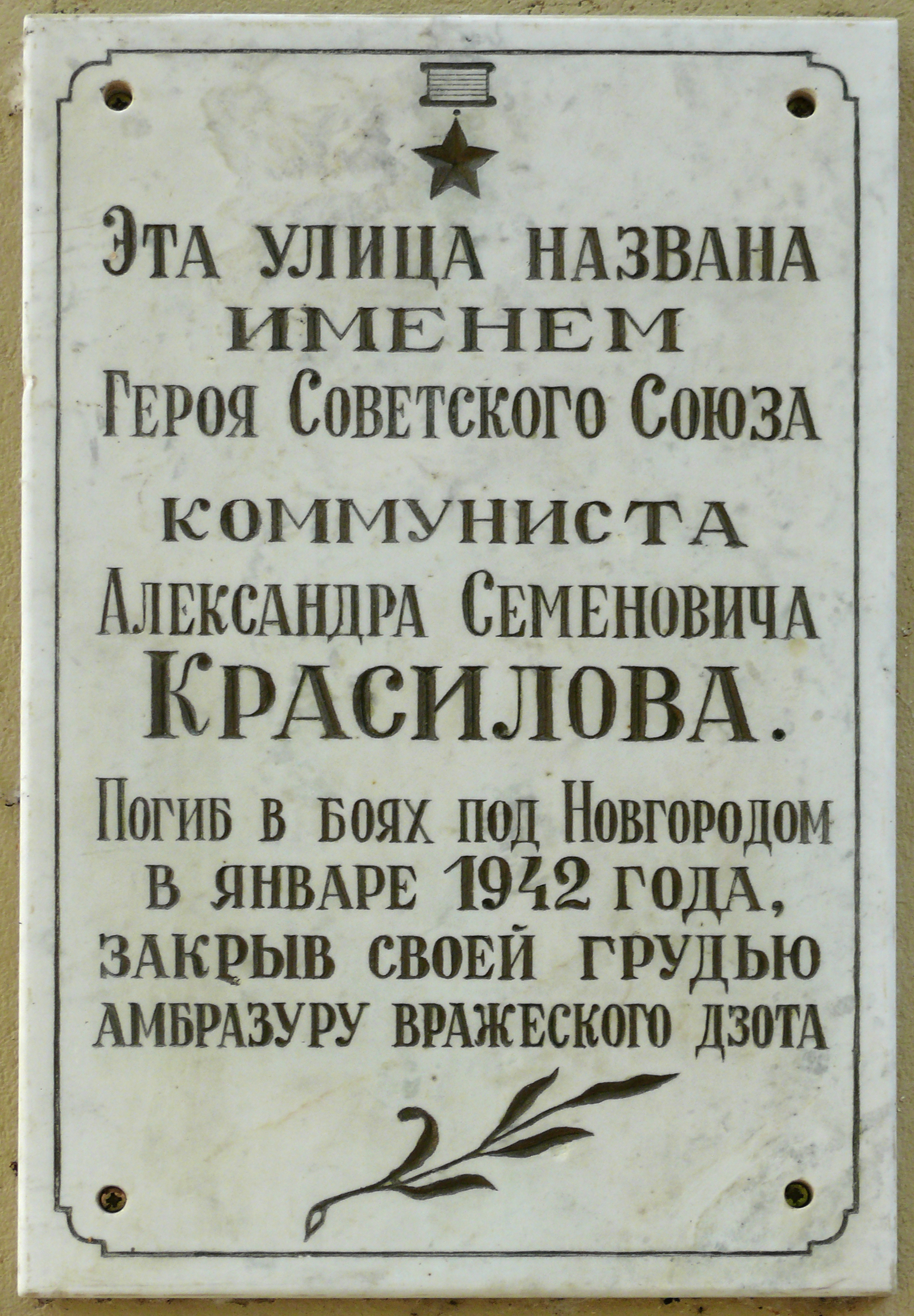 Annotative plaque with the name of hero Krasilov. Velikiy Novgorod, Russia